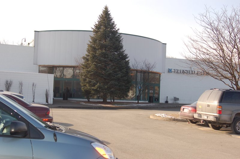 Rotterdam Mall, food court entrance taken by Geotek, Rotterdam, NY, February 2007